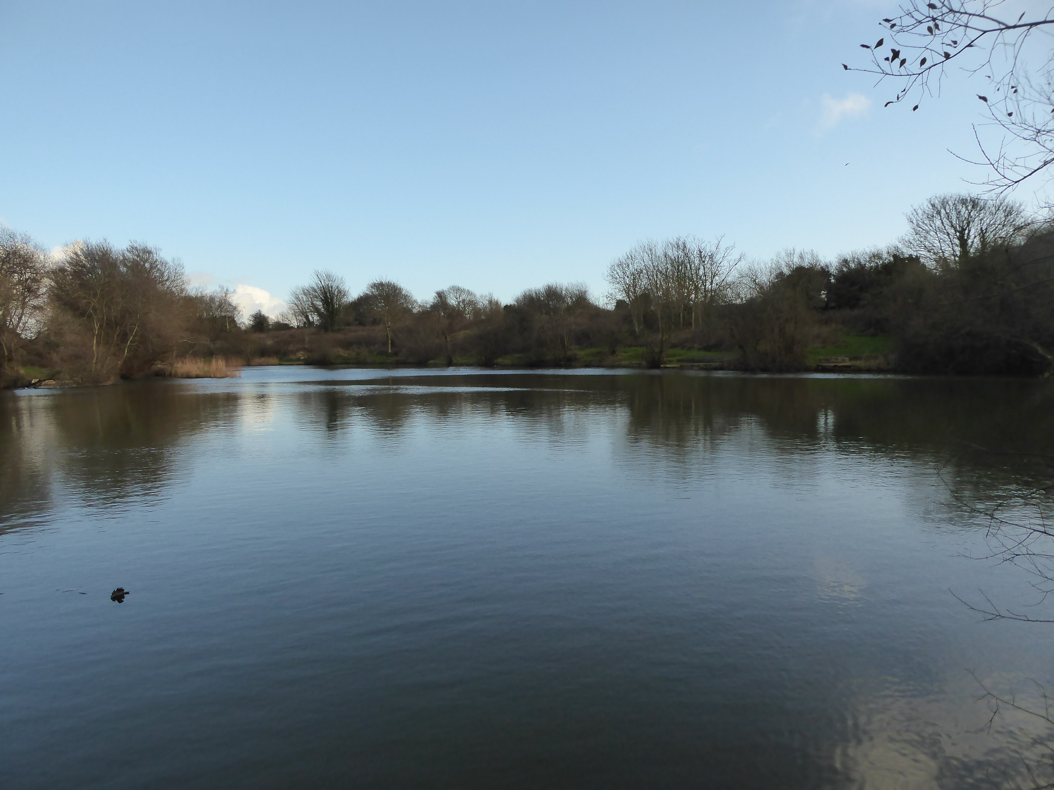 A picture of Gunville fishing lake on the Isle of Wight.